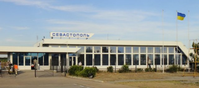 International Airport «Belbek»